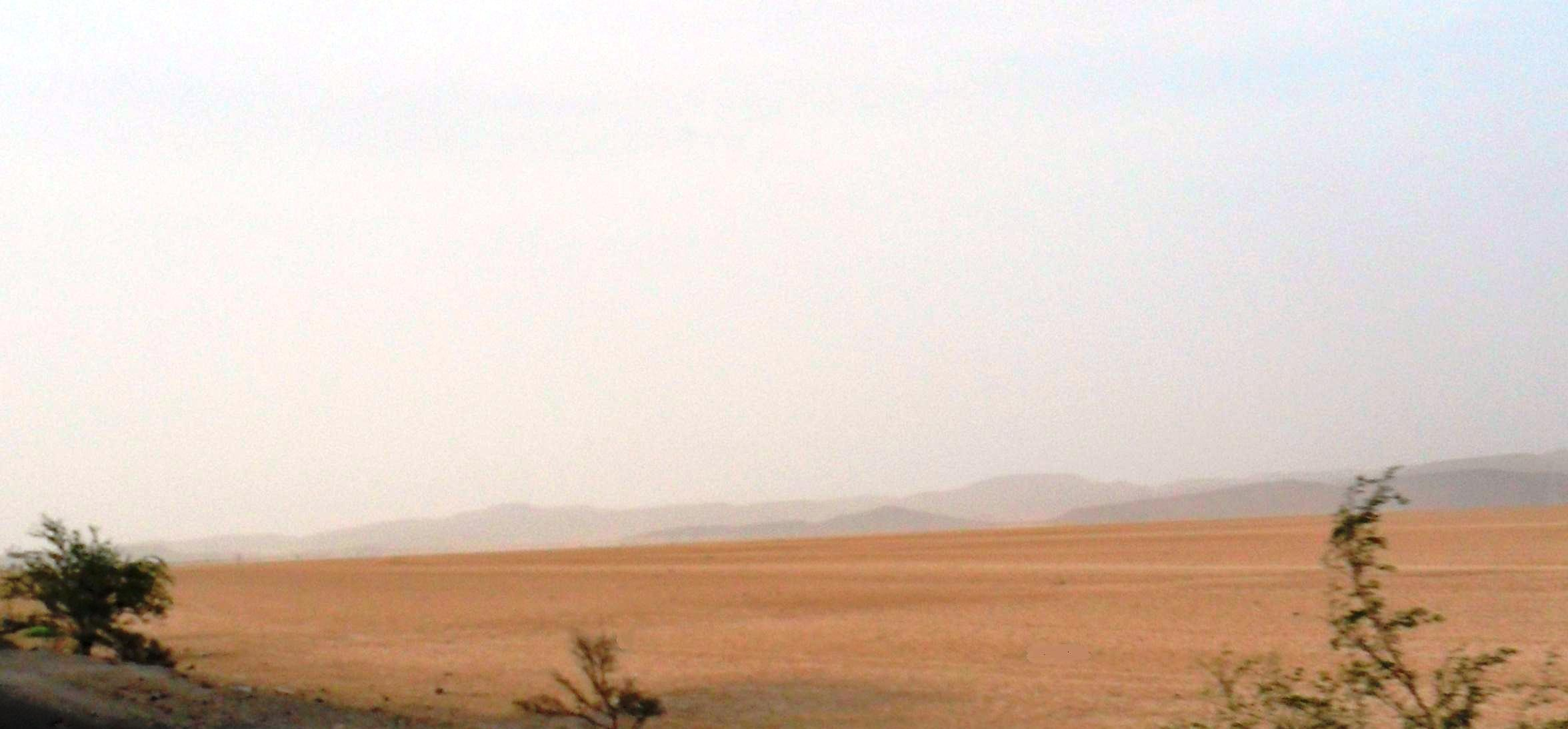 GrandBaraDesert